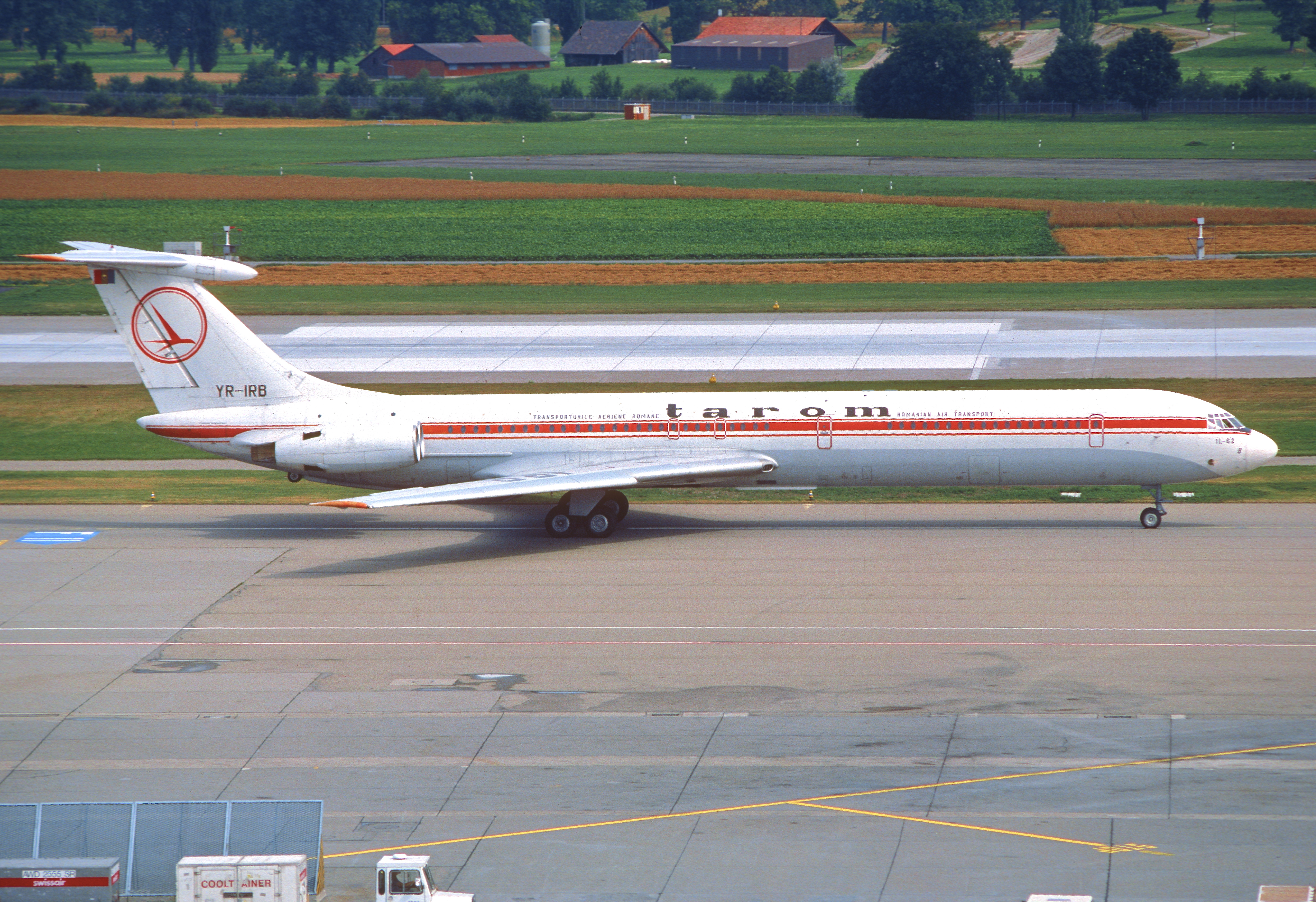 TAROM Ilyushin 62M; YR-IRB@ZRH, August 1985/ DRN